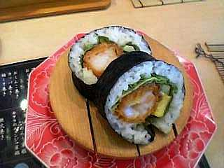 "Sushi-roll with fried shrimp" Own-work. taken by cellular phone with camera on 14/July/2006. Sharpness-modification was done with MS-photoeditor.